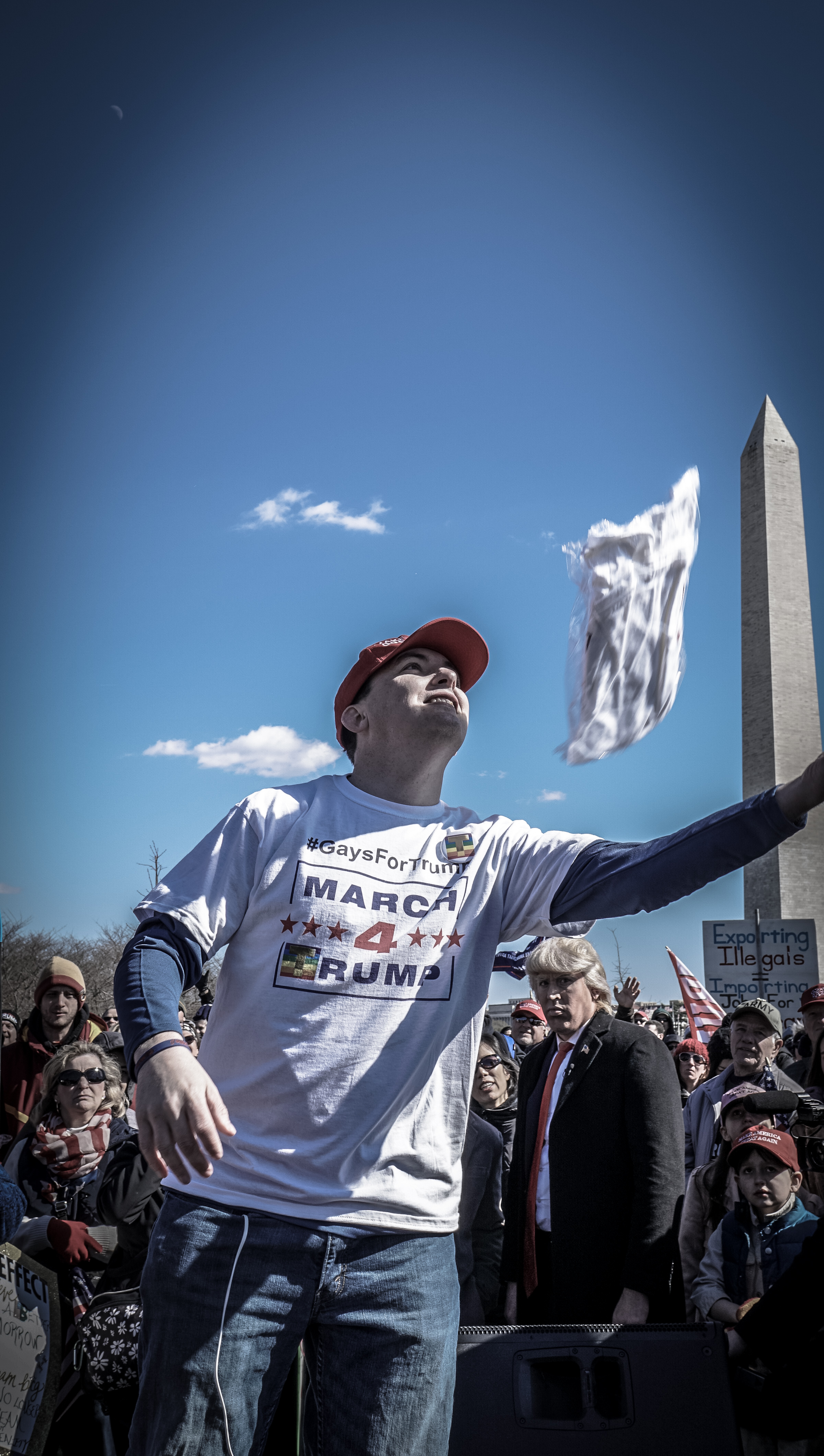 March 4 Trump rally in Washington, D.C.